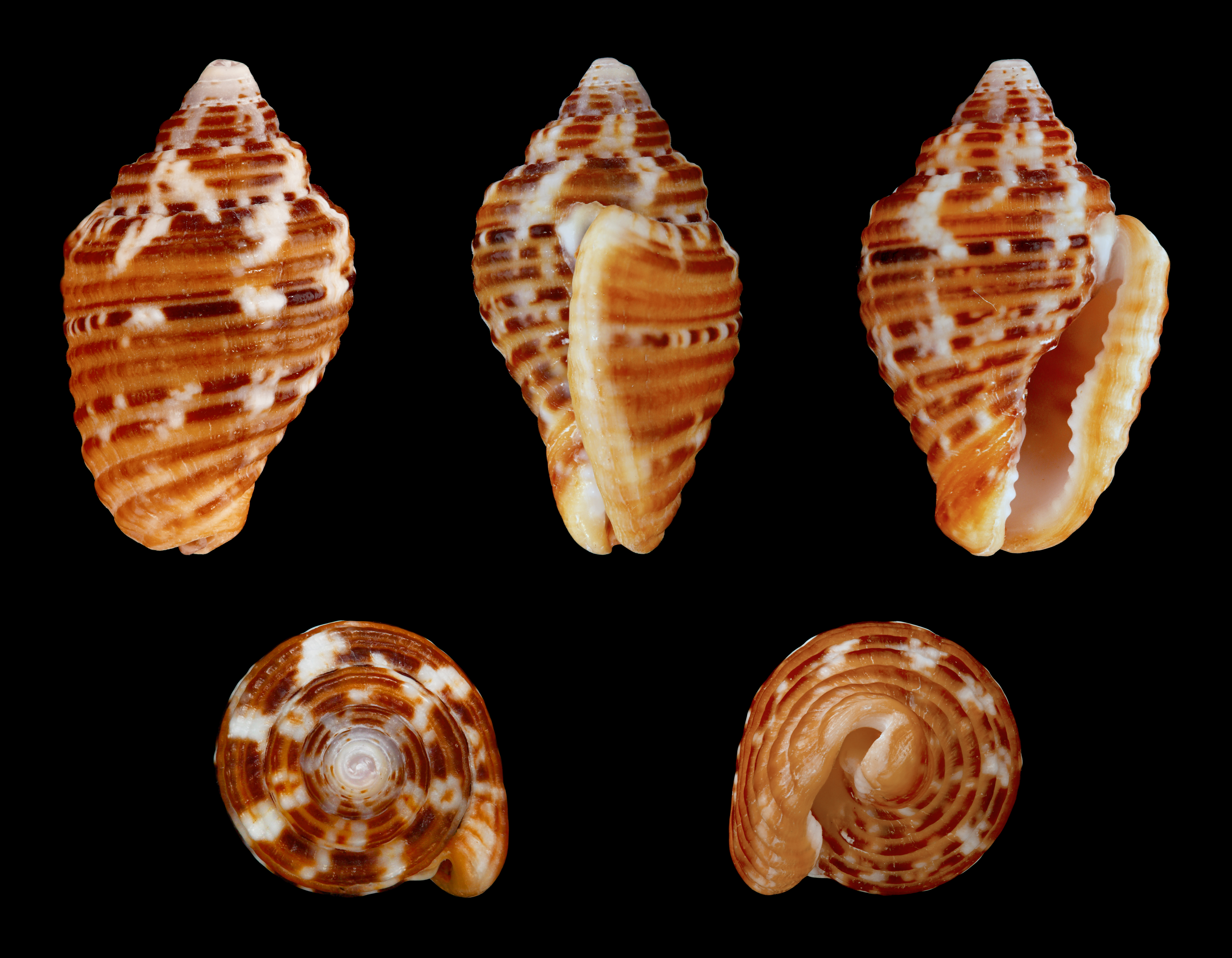 Common Dove Shell; Length 1.7 cm; Originating from Playa Guajataca, Isabela, Puerto Rico; Shell of own collection, therefore not geocoded. Dorsal, lateral (right side), ventral, back, and front view.